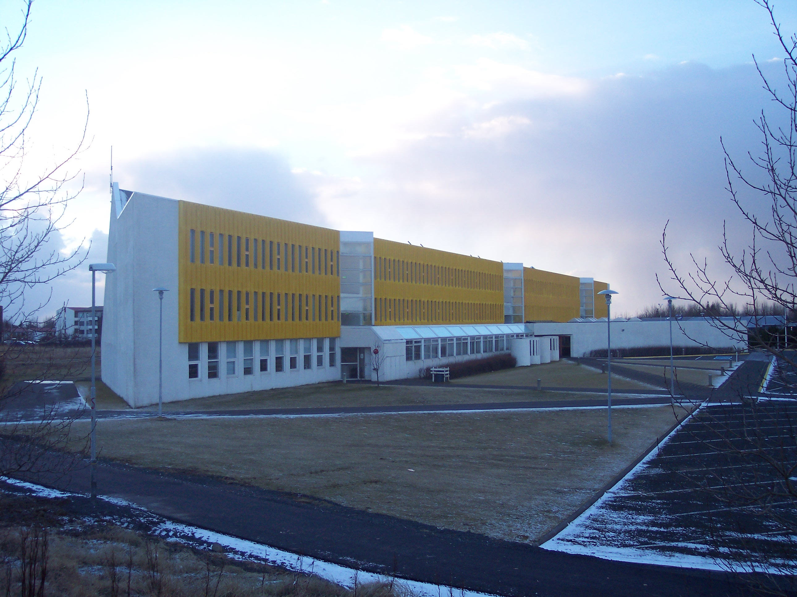 Fjölbrautaskóli Suðurlands in Selfoss, Iceland. Taken by Jóna Þórunn Ragnarsdóttir, in november 2004.